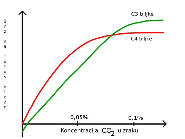 Photosynthesis - CO2 concentration graph